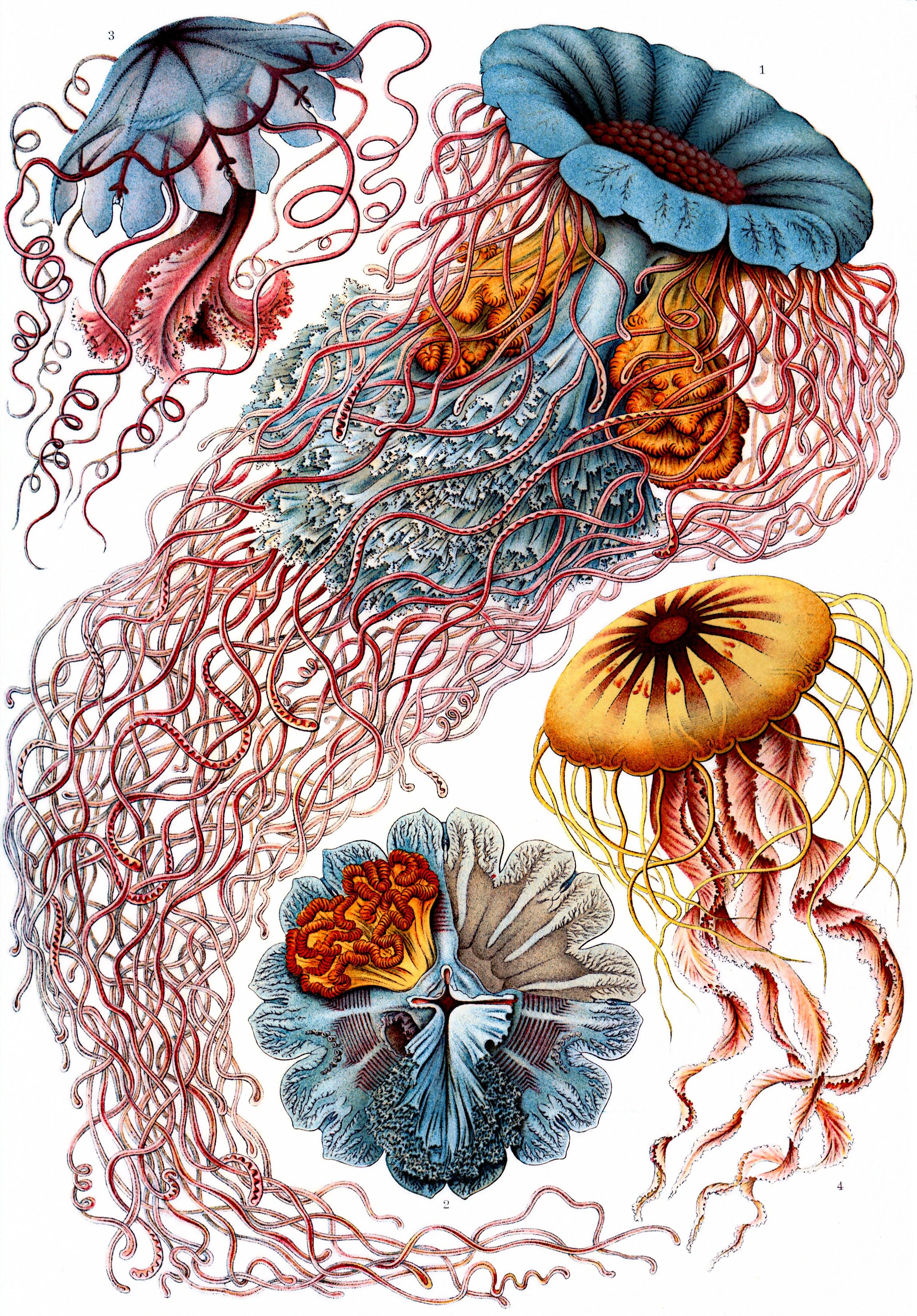 Haeckel named D. annasethe after his wife Anna Sethe, who died the year before Haeckel observed the organism.